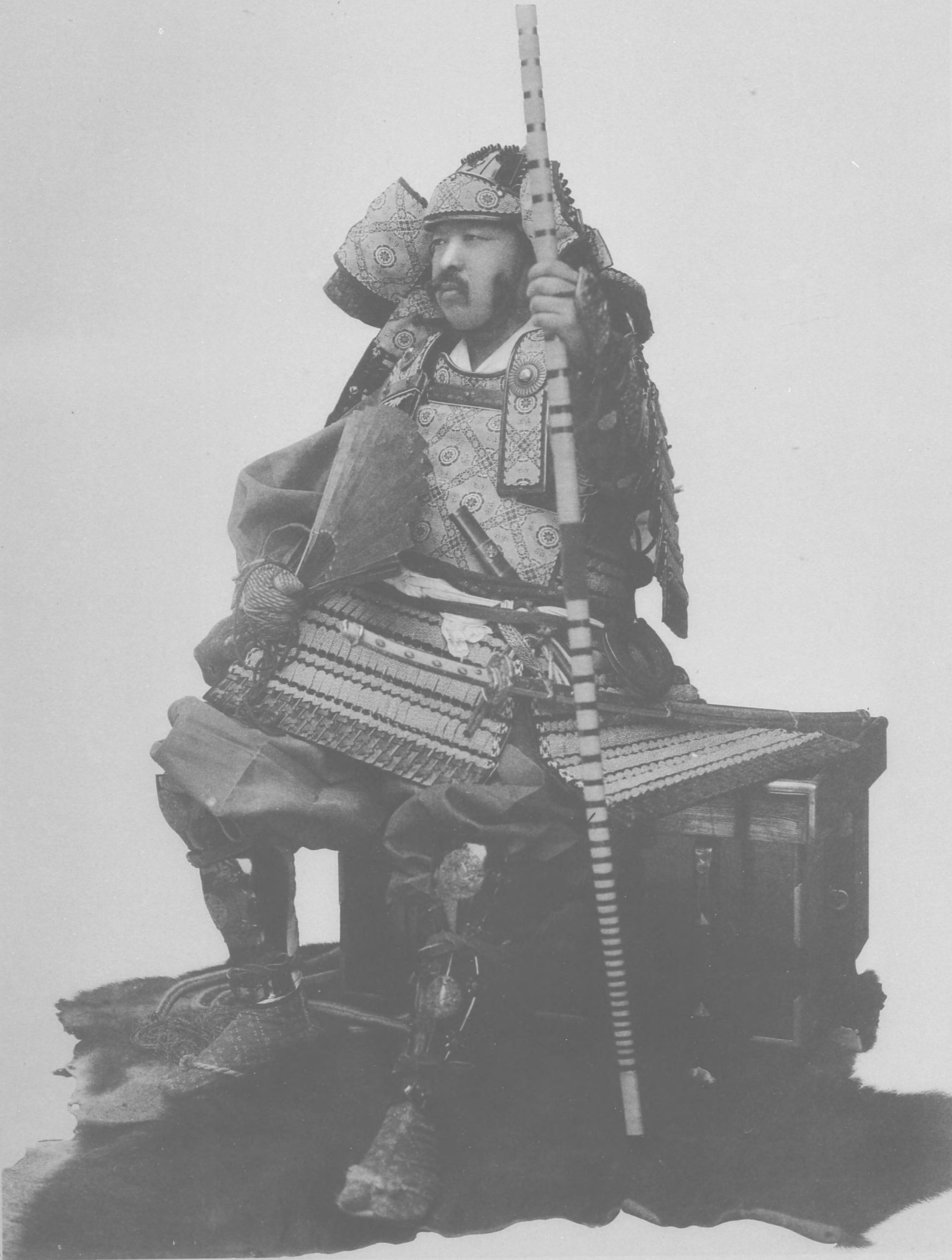 Kobori Tomoto in a self-made o-yoroi (front) in 1910.